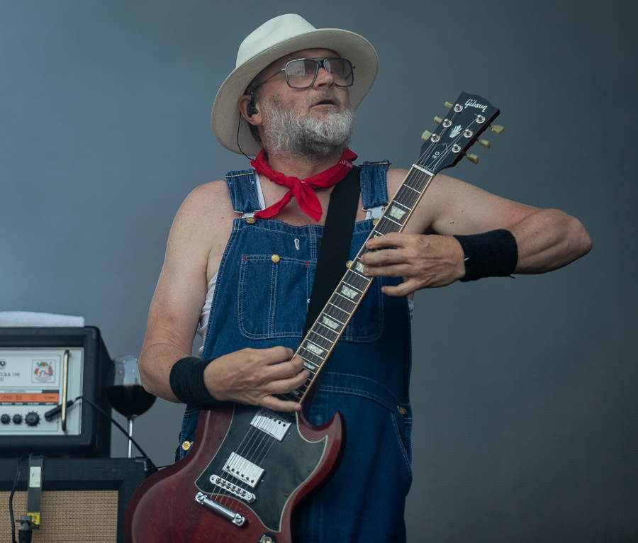 Rune Grønn in a concert with Turboneger at Stavernfestivalen. The concert took place on 12. July 2019 in Stavern. Lineup:Anthony Madsen-Sylvester (vocal)Thomas Seltzer (bass guitar)Knut Schreiner (guitar)Rune Grønn (guitar)Tommy Akerholdt (drums)Haakon-Marius Pettersen (keyboard)